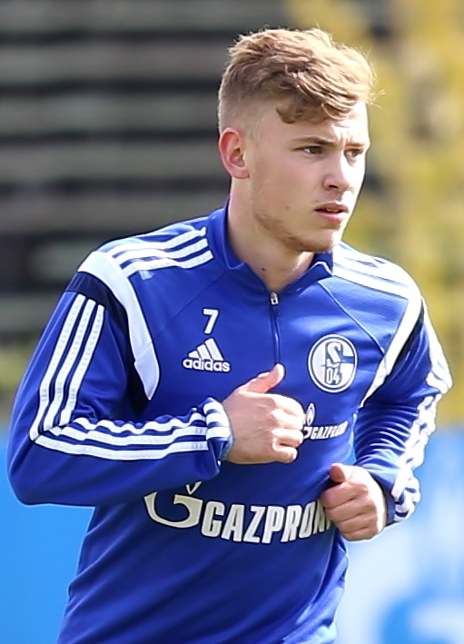 Max Meyer at a Schalke 04 training on 16 April 2015.